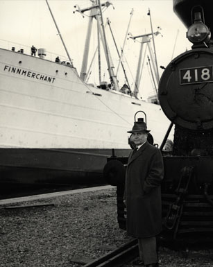 Photograph of the Finnish general manager Erkki Aalto (1904–1984) with a Tk2 locomotive (No. 418).